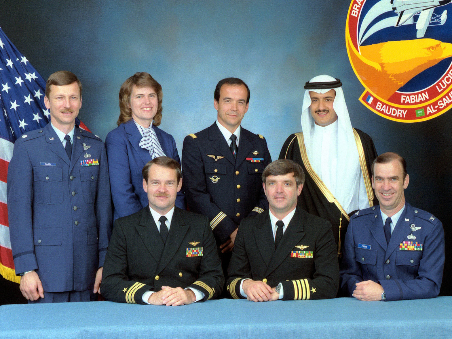 STS-51G Crew photo with Commander Daniel C. Brandenstein, Pilot John O. Creighton, Mission Specialists Shannon W. Lucid, John M. Fabian, Steven R. Nagel and Payload Specialists Patrick Baudry and Sultan bin Salman Al-Saud.